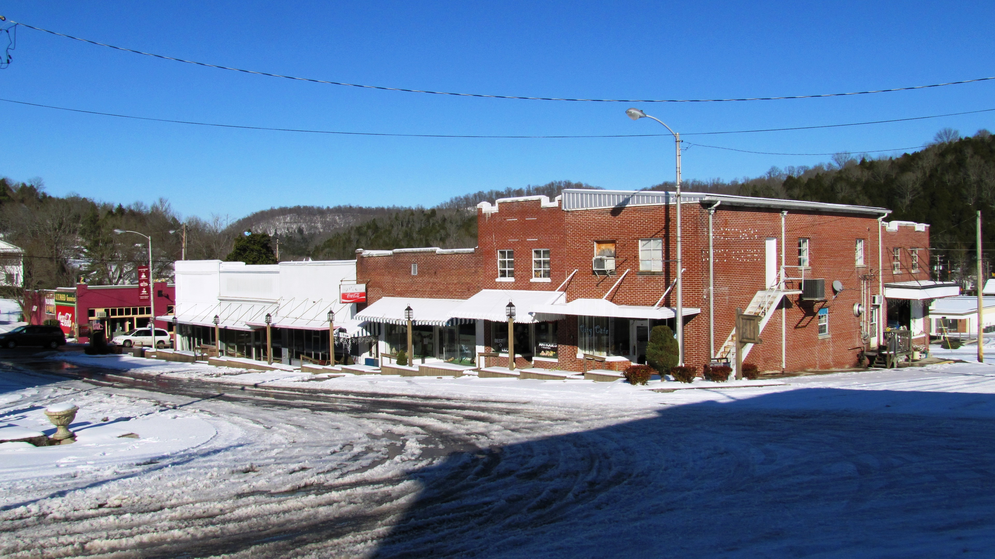 Storefronts along Mainstreet in the Town Square in Gainesboro, Tennessee, USA. The Town Square is listed on the National Register under "Gainesboro Historic District."